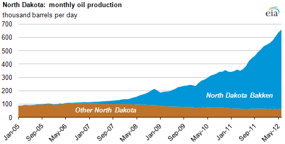 North Dakota oil production